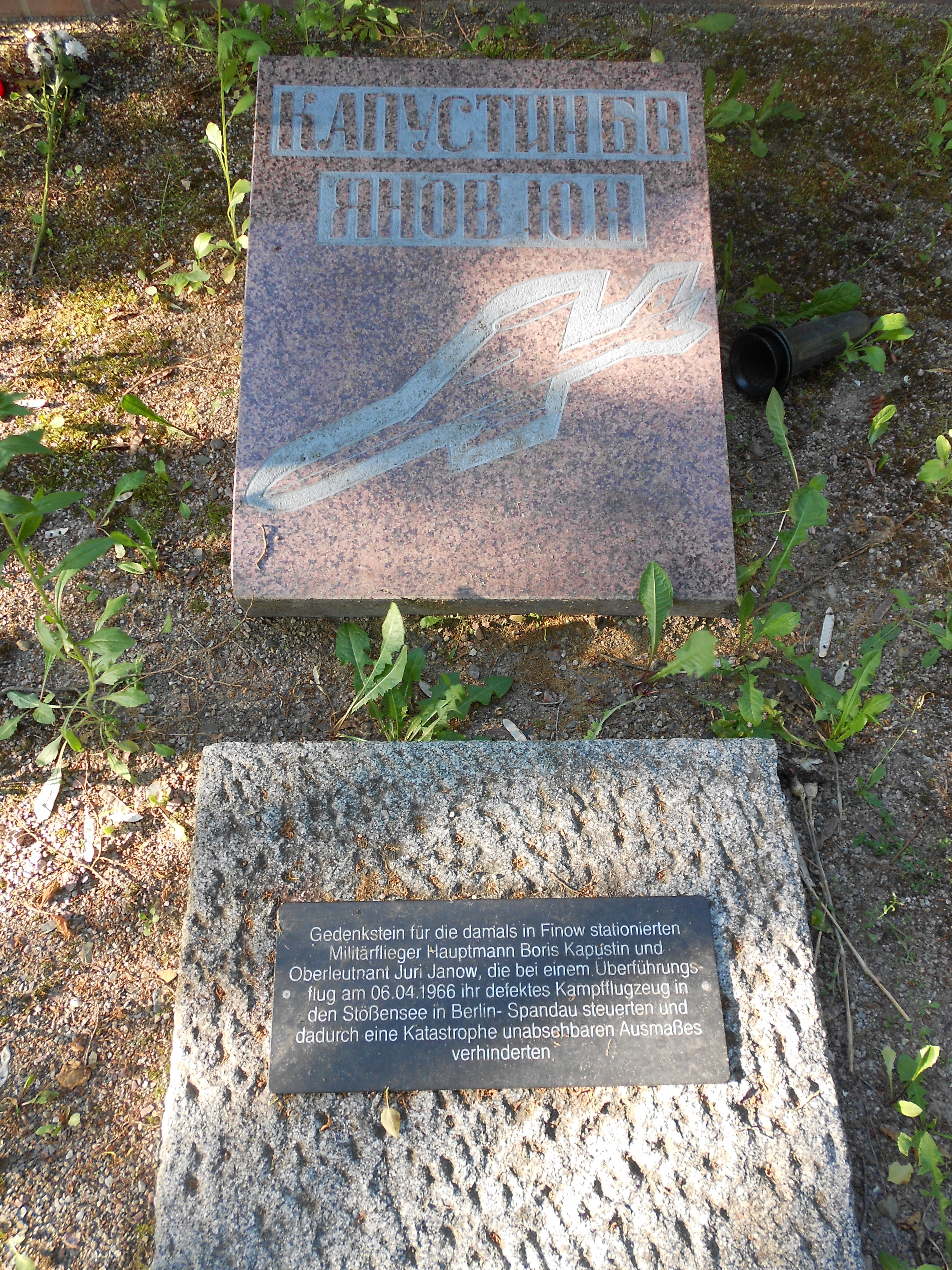 soviet cemetery in Eberswalde, Germany